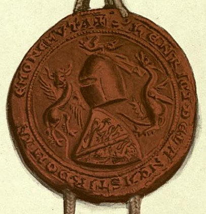 Seal of Henry, 3rd Earl of Lancaster